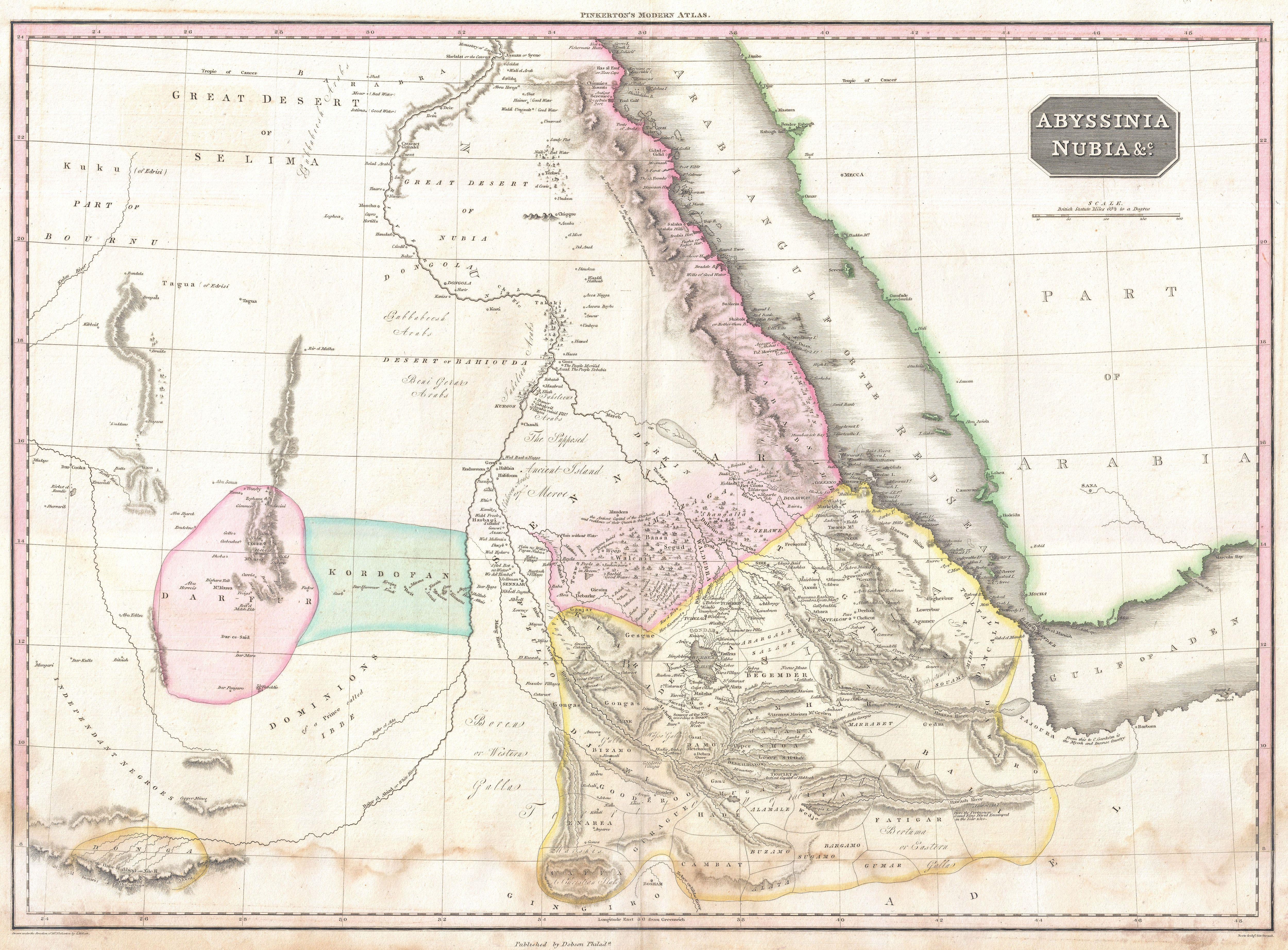 Pinkerton's extraordinary 1818 map of Nubia and Abyssinia. Covers from Darfur east to the Gulf of Aden and from Aswan south to Gingiro. Includes the modern day countries of Sudan, Ethiopia, and Eretria as well as parts of Djibouti, Kenya, Egypt, Yemen and Saudi Arabia. This map is centered on the southern reaches of the Nile River. Shows the division of the Nile in modern day Sudan between the White Nile, which flows slightly westward and the Blue Nile which flows slightly eastward. The Blue Nile had, by this time, been traced to its source, Lake Tana, in the relatively well mapped Christian kingdom of Abyssinia. The White Nile is shown originating the Mountains of the Moon in the extreme lower left quadrants of this map. The Mountains of the Moon were an apocryphal source for the Nile River speculated upon by as early as Herodotus but more commonly by the second century geographer Claudius Ptolemy. It is a curious decision on the part of Pinkerton to keep the Mountains of the Moon as a source of the White Nile, but abandon the associated lake theory that, ultimately proved to have some relation to reality. Pinkerton offers numerous interesting notes and commentary throughout. Near the split of the White and Blue Niles, Pinkerton correctly identifies the Supposed Ancient Island of Meroe were today little known but magnificent ancient pyramids were built in imitation of the Egyptian work at Giza. Also notes the site where the Portuguese found King David Encamped in 1520 - no doubt referring to one of the many Abyssinian Kings of that name. Also notes the important desert caravan route, with its many oases, between Accad and Aswan. Upper right hand quadrant features title plate and a scale in British Miles. Drawn by L. Herbert and engraved by Samuel Neele under the direction of John Pinkerton. This map comes from the scarce American edition of Pinkerton’s Modern Atlas, published by Thomas Dobson & Co. of Philadelphia in 1818.